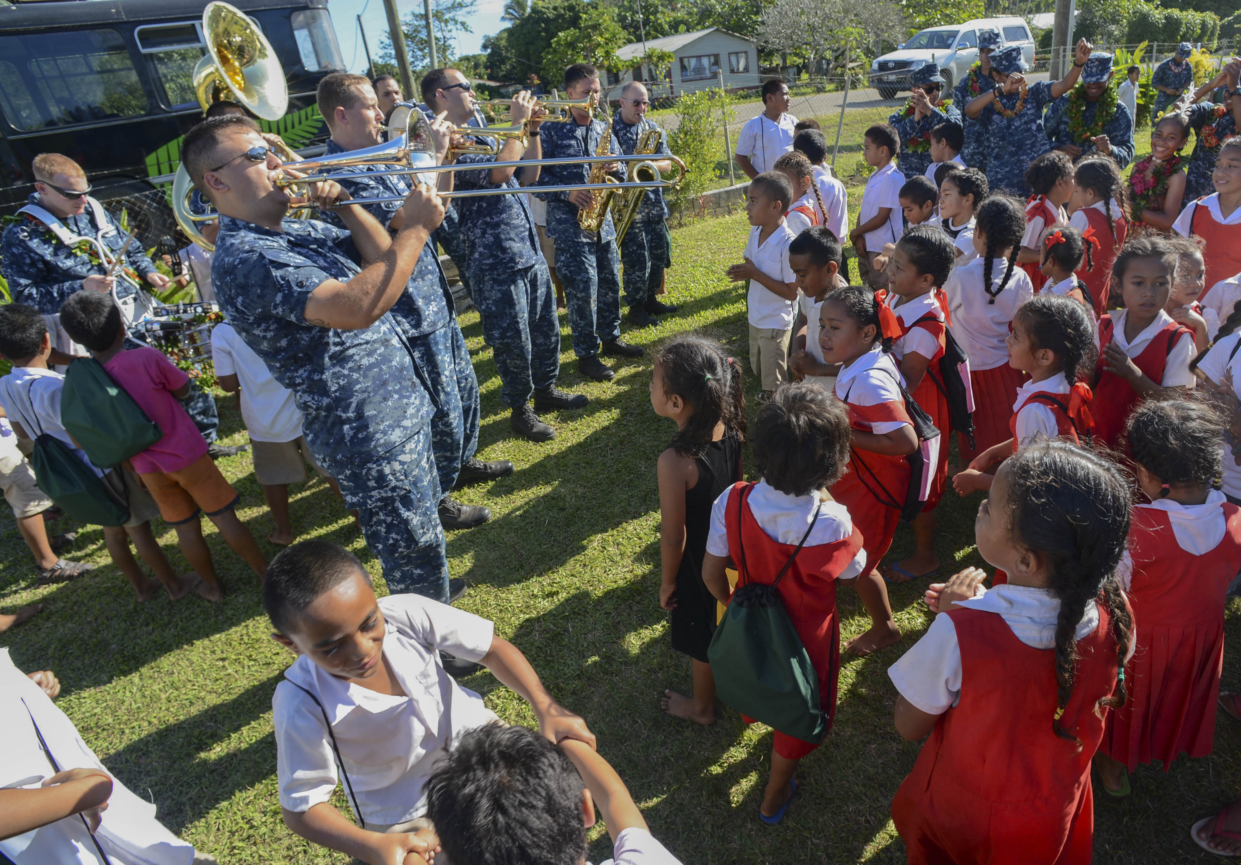 FAHEFA, Tonga (June 18, 2013) The U.S. Pacific Fleet Band entertains Tongan school children during a Pacific Partnership 2013 donation ceremony. Pacific Partnership is joined by partner nations Australia, Canada, Colombia, France, Japan, Malaysia, Singapore, South Korea and New Zealand to strengthen disaster response preparedness around the Indo-Asia-Pacific region. (U.S. Navy photo by Mass Communication Specialist 2nd Class Laurie Dexter/Released) 130618-N-GI544-115 Join the conversation navylive.dodlive.mil